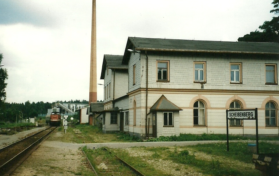 A regular train at Scheibenberg (district of Erzgebirgskreis, Saxony) in August 1997. Since September 1997, this railway line is used only for tourist trains.